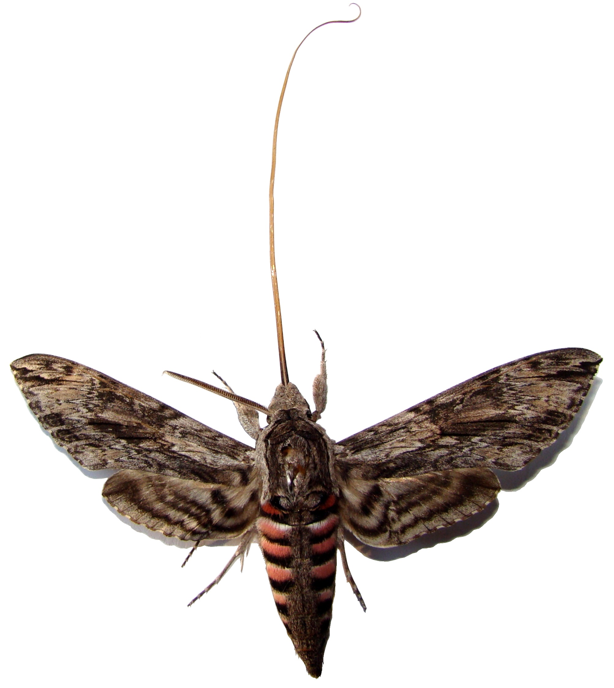 Convolvulus Hawk-moth (Agrius convolvuli) with stretched proboscis.